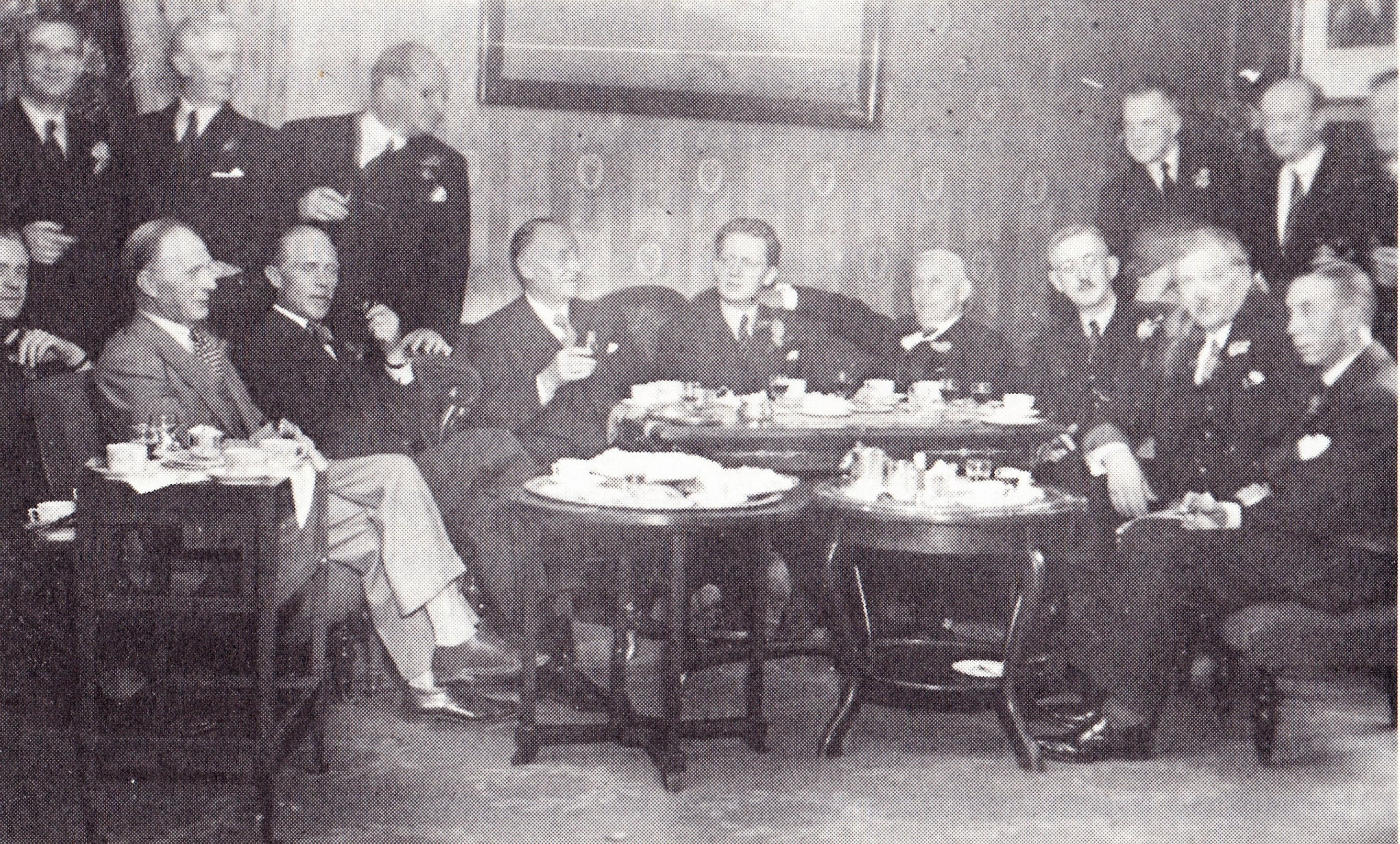 Trygve Gulbranssen at his 50th birtday party at Villa Granberg in Drammensveien. Standing from left: writer Andreas Markusson, Einar Staff, painter Ulrik Hendriksen, brother Birger, Knut Tvedt and neighbour Erling Uttisrud. Sitting from left: brother in law Gunnulf Hegna, Nils Dahl, Alex Brinchmann (at the time presiden of the Norwegian writer's league), actor David Knudsen, Trygve Gulbranssen, Wilhelm Blystad, John Falchenberg, painter Per Deberitz and P.Chr.Andersen.